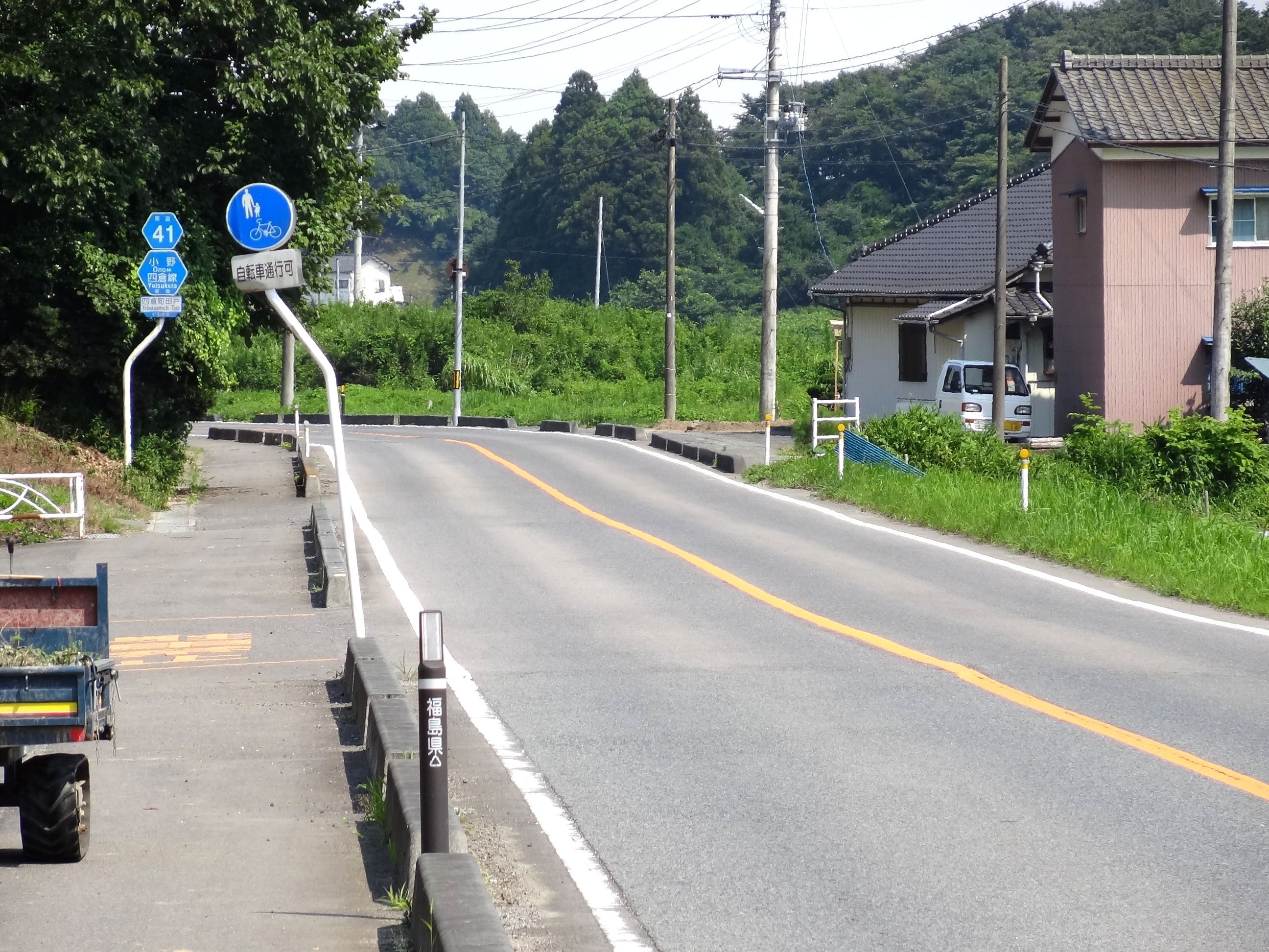 The Fukushima Prefectural Road Route 41 in Yotsukuramachi Tado, Iwaki City